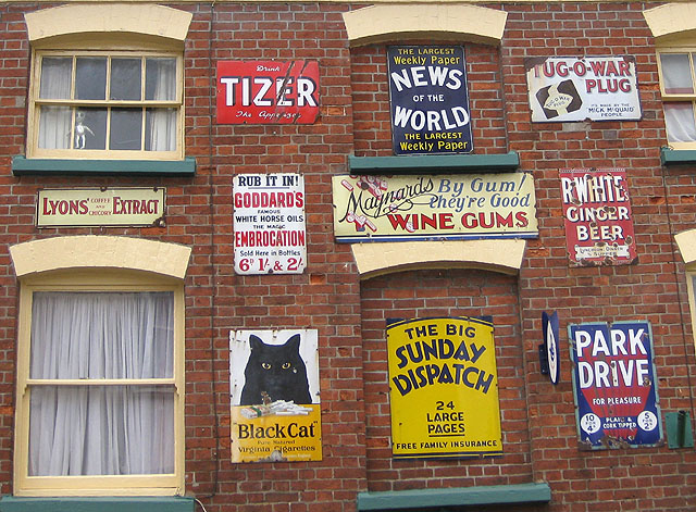 Selection of enamel signs Advertising a variety of life's comforts at the time: newspapers, cigarettes, tobacco, wine gums, coffee and just in case, Goddard's Embrocation. How many have you heard of and how many are still on sale? (In Herefordshire, Great Britain).